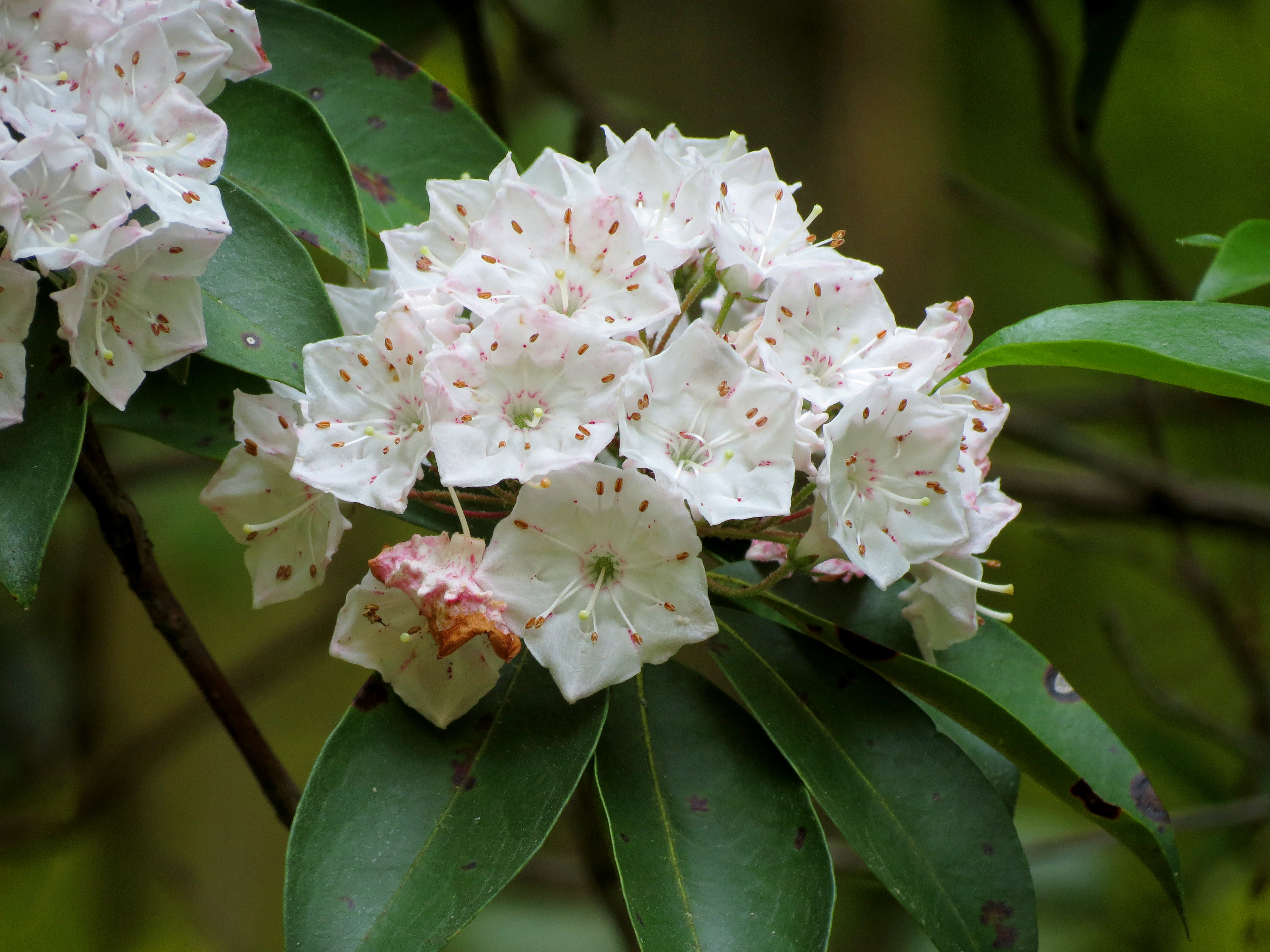 Kalmia latifolia. Rock Creek Park, Washington, DC, USA.